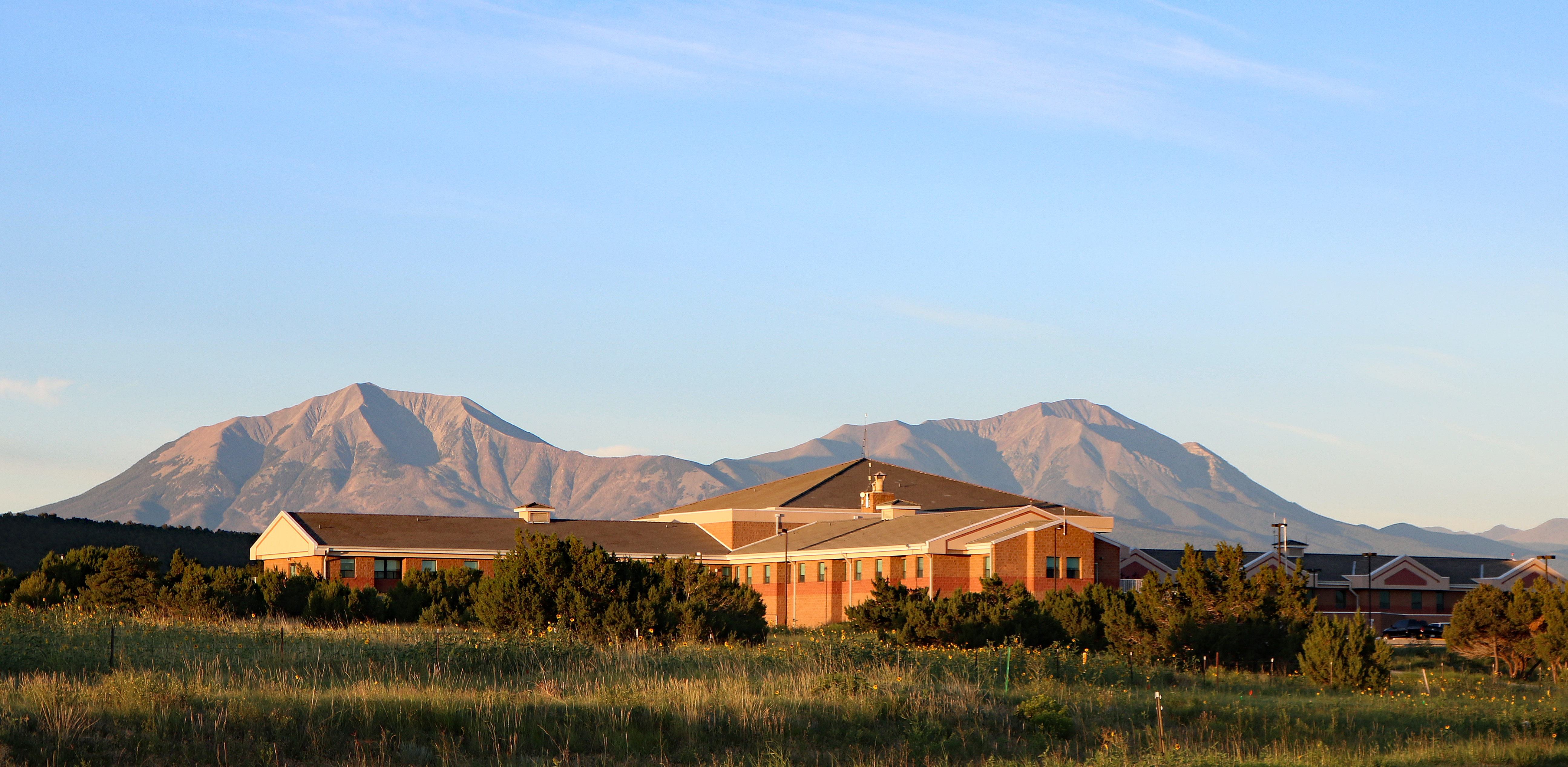 The Spanish Peaks Regional Health Center, located on U.S. Highway 160 west of Walsenburg, Colorado.